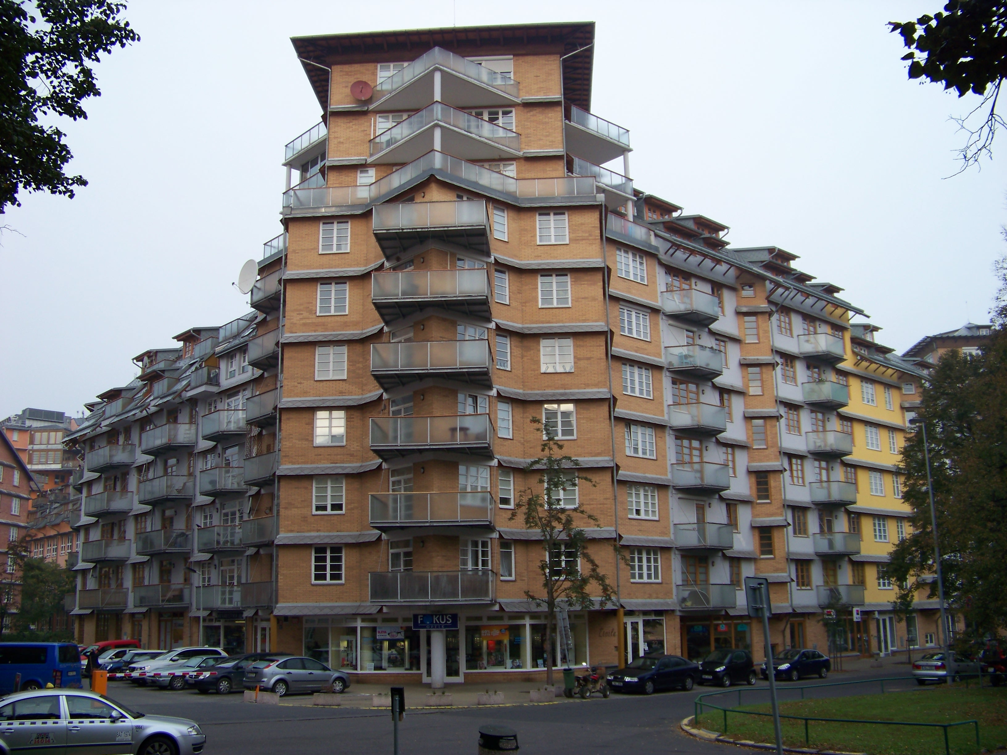 Prague-Veleslavín, the Czech Republic. Residential area Hvězda, Peštukova, Křenova, Pláničkova, No. 439. - OpenStreetMap(Info)